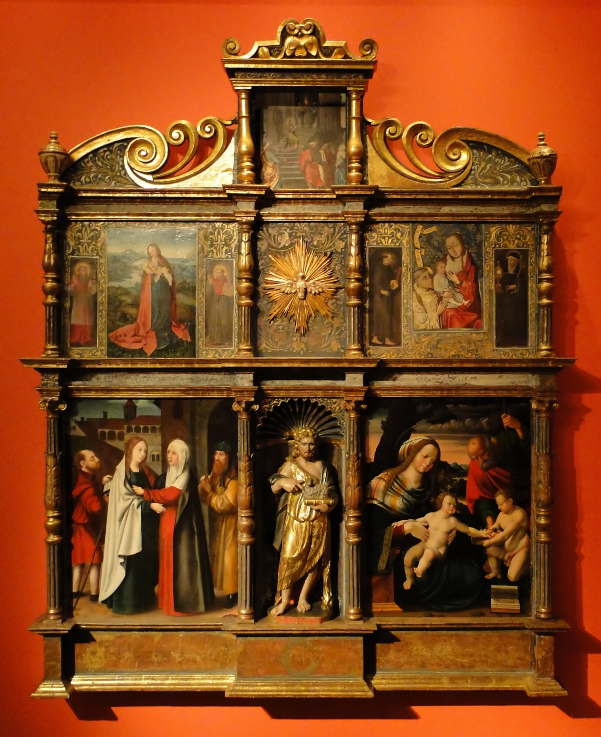 Polyptych at the Museum of Monastery of Pedralbes, Barcelona, Spain